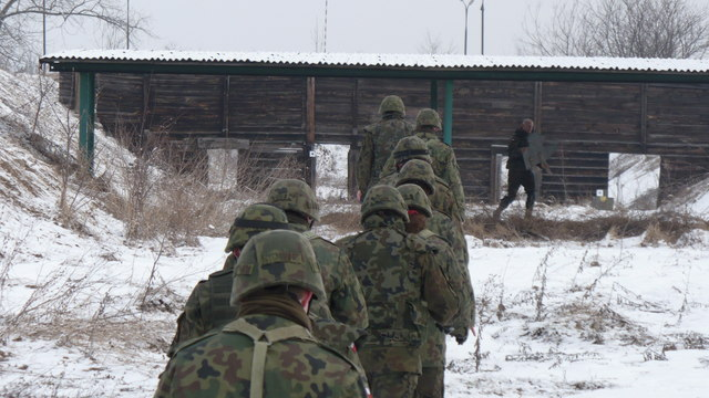 Legia Akademicka KUL